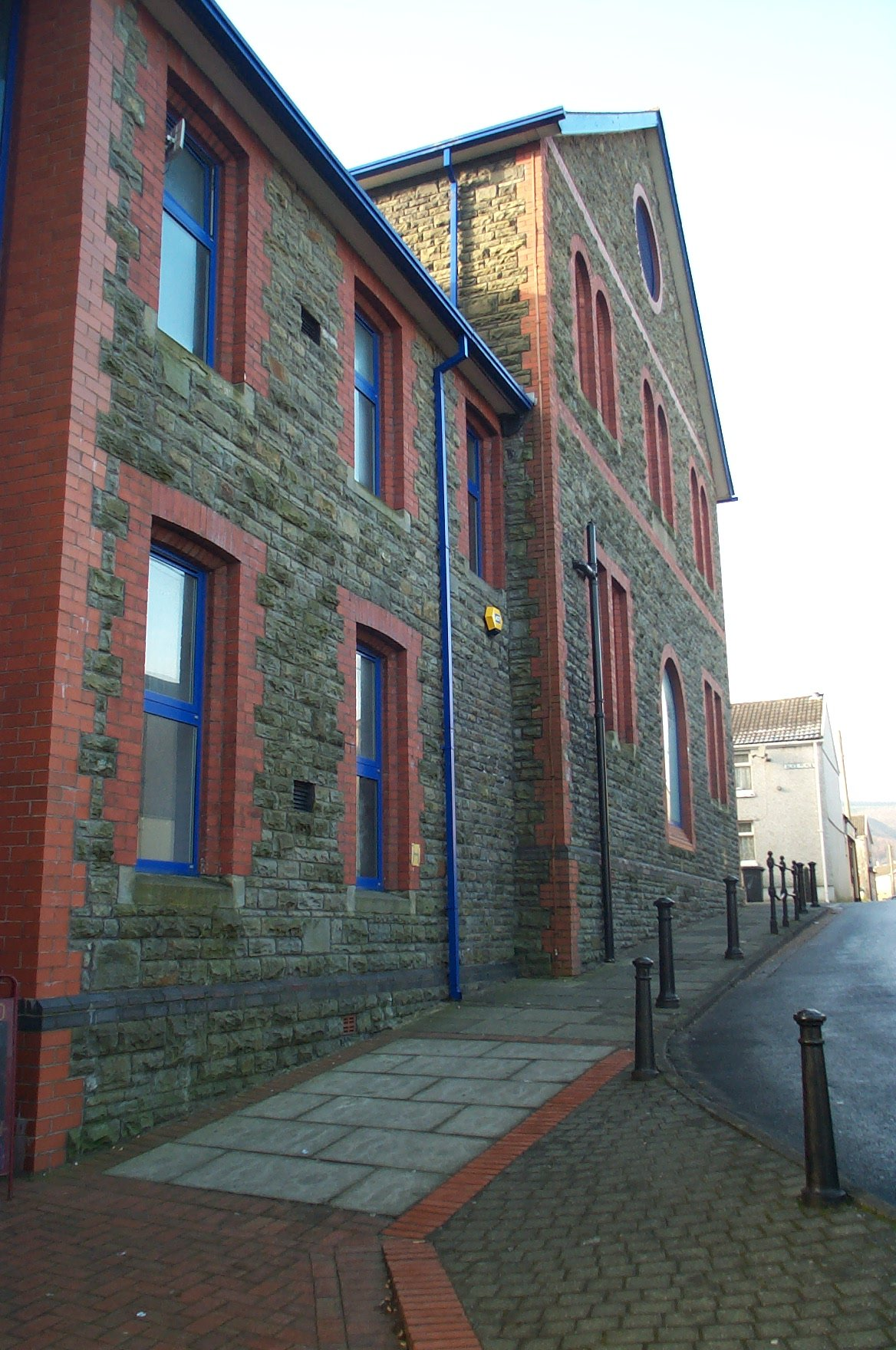 Cwmaman Public Hall and Institute. Image donated by Aberdare Blog